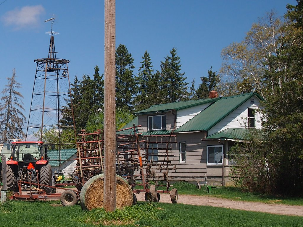 Flint Creek Farm Historic District, Field Township, Minnesota, USA. Viewed from the southwest.